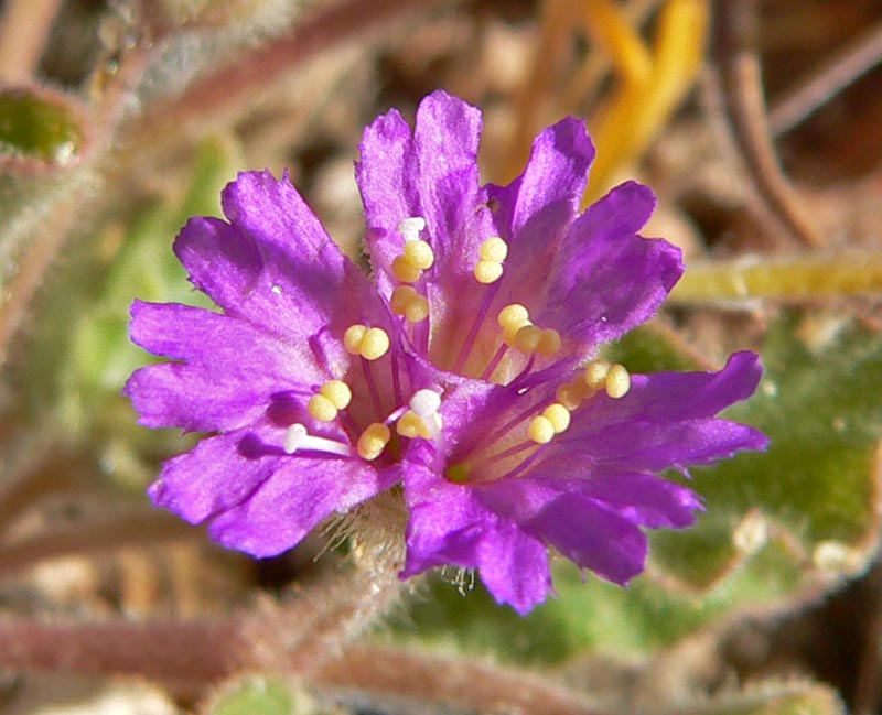 Photo of Allionia incarnata just outside Red Rock Canyon, Nevada